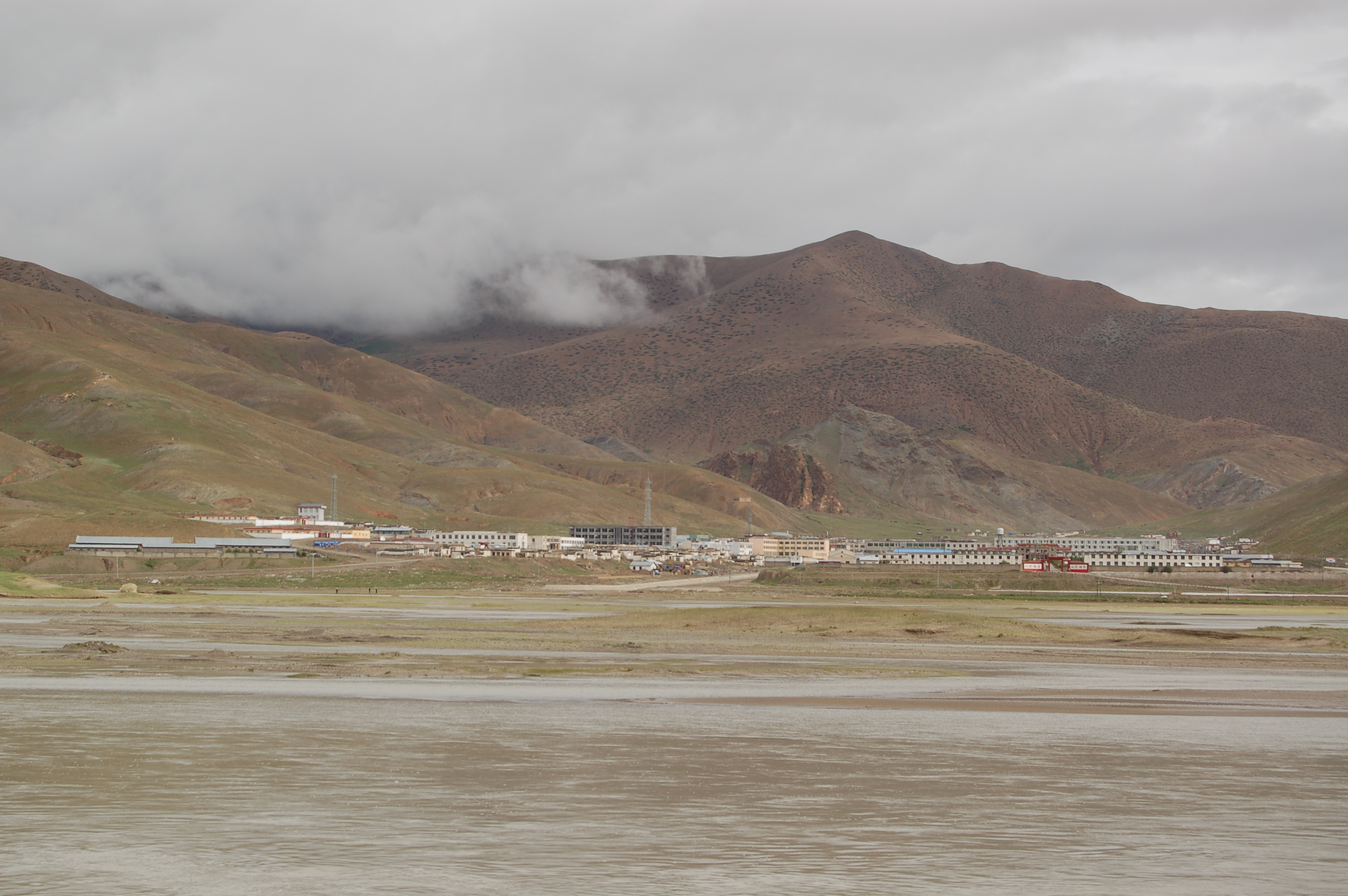 Saga, town in West-Tibet